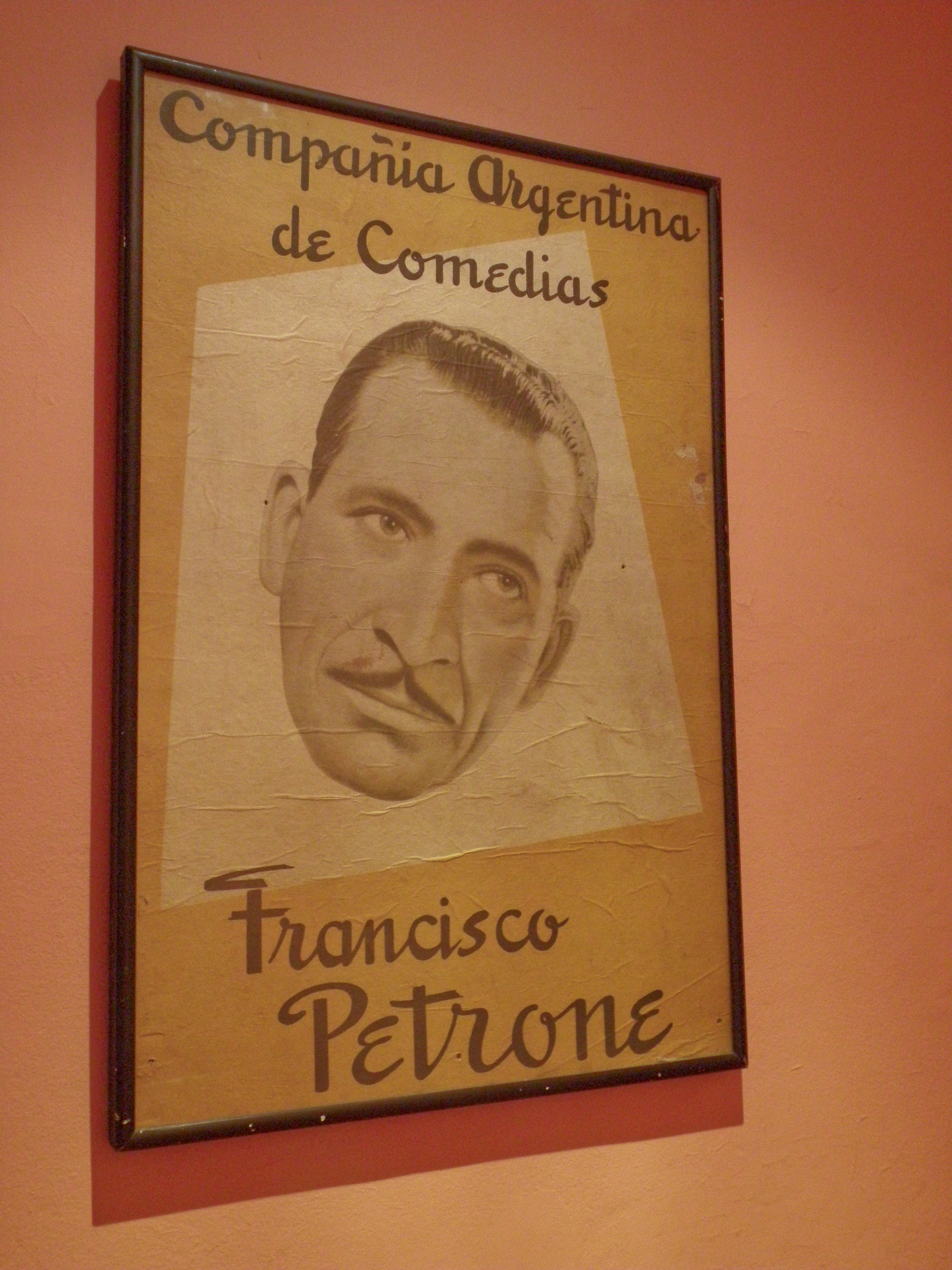 Interior of the Teatro 3 de Febrero, Paraná, Argentina: A framed poster of actor Francisco Petrone, with the caption "Compania Argentina de Comedias"